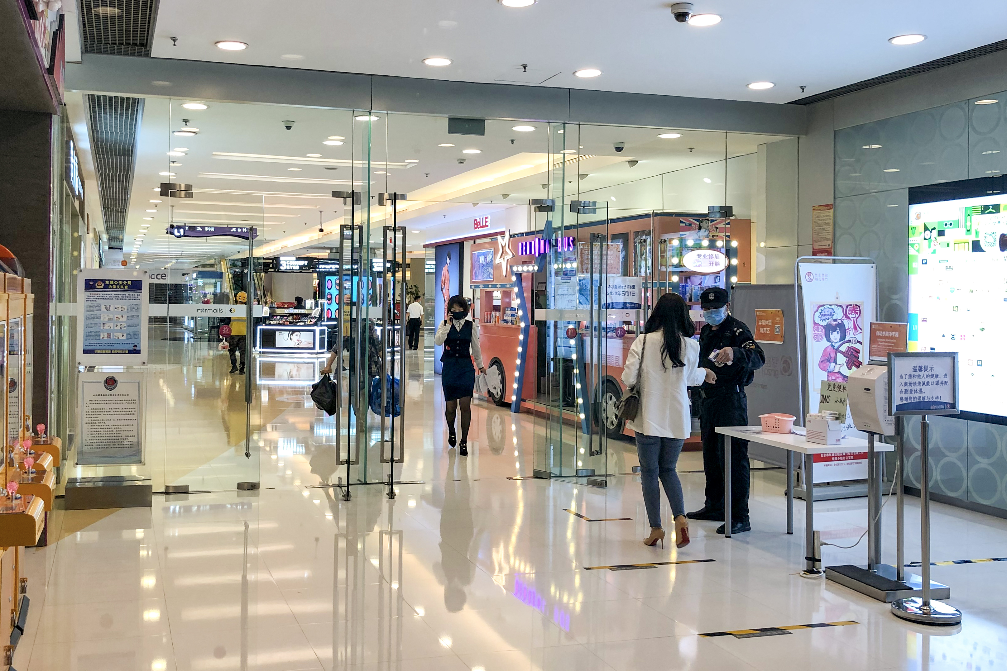 Most public areas still require thermometry - on the wrist.